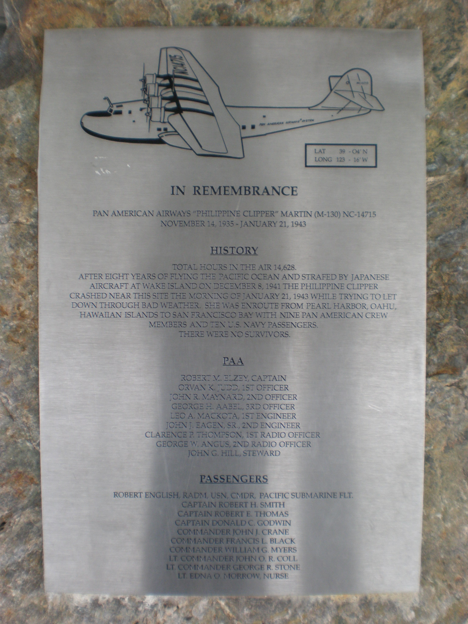 Memorial plaque to the Pan American Airways “Philippine Clipper”, a Martin M-130 which crashed near the site of the Hiller Aviation Museum in San Carlos, California on January 21, 1943 with no survivors. Located outside the entrance to the museum.